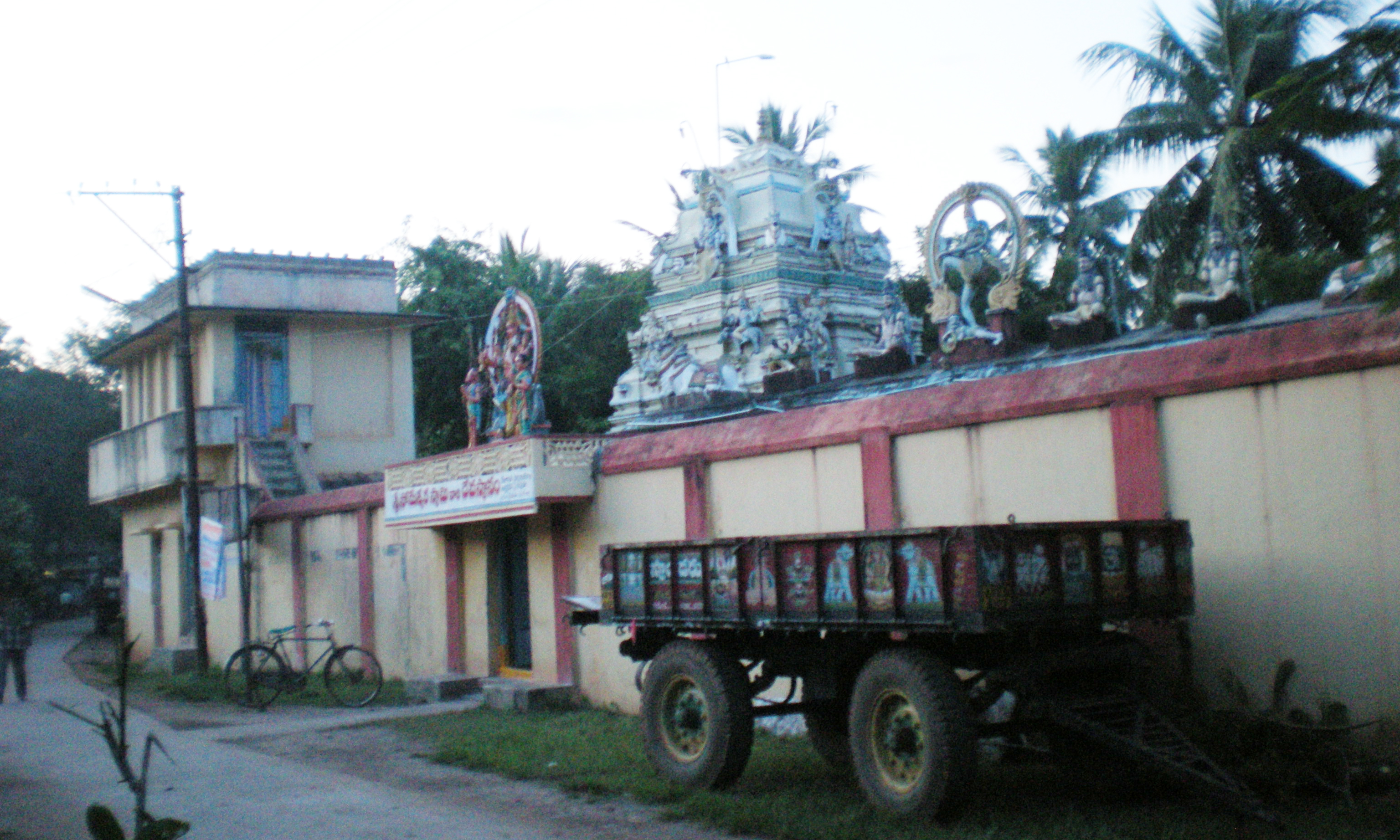 ఆచంట వేమవరం గ్రామశివాలయం వీధి